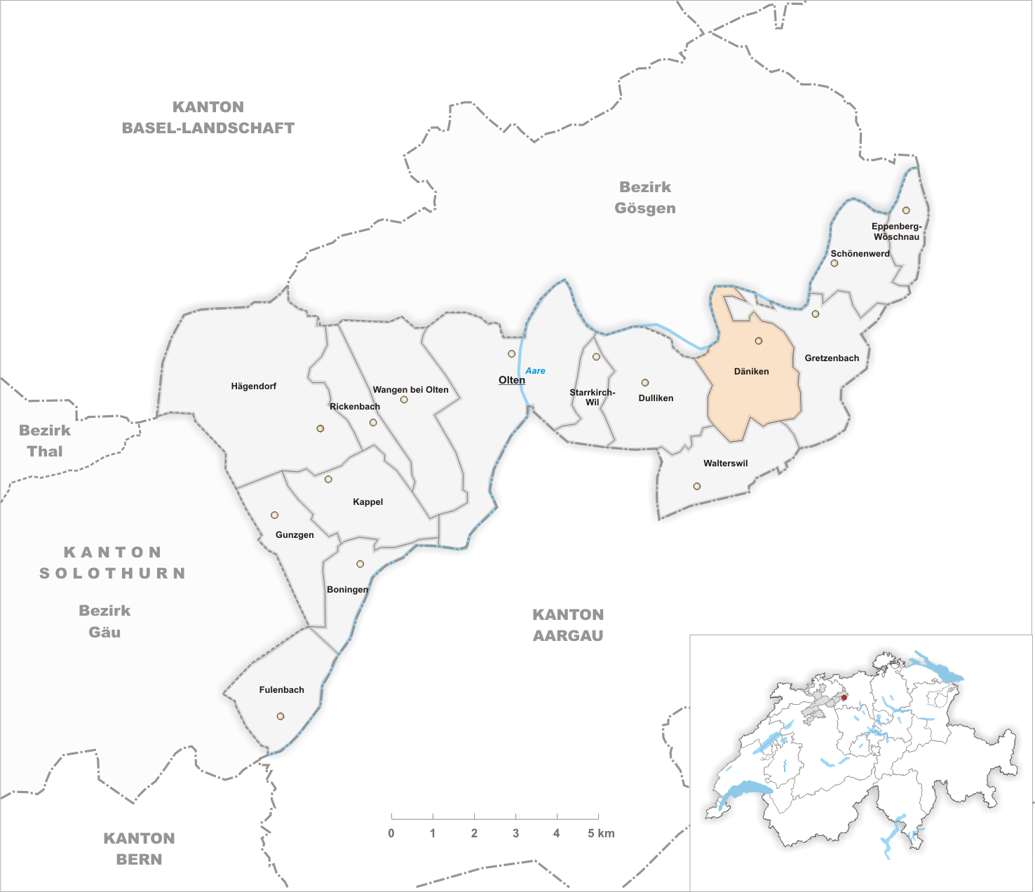 Municipality Däniken